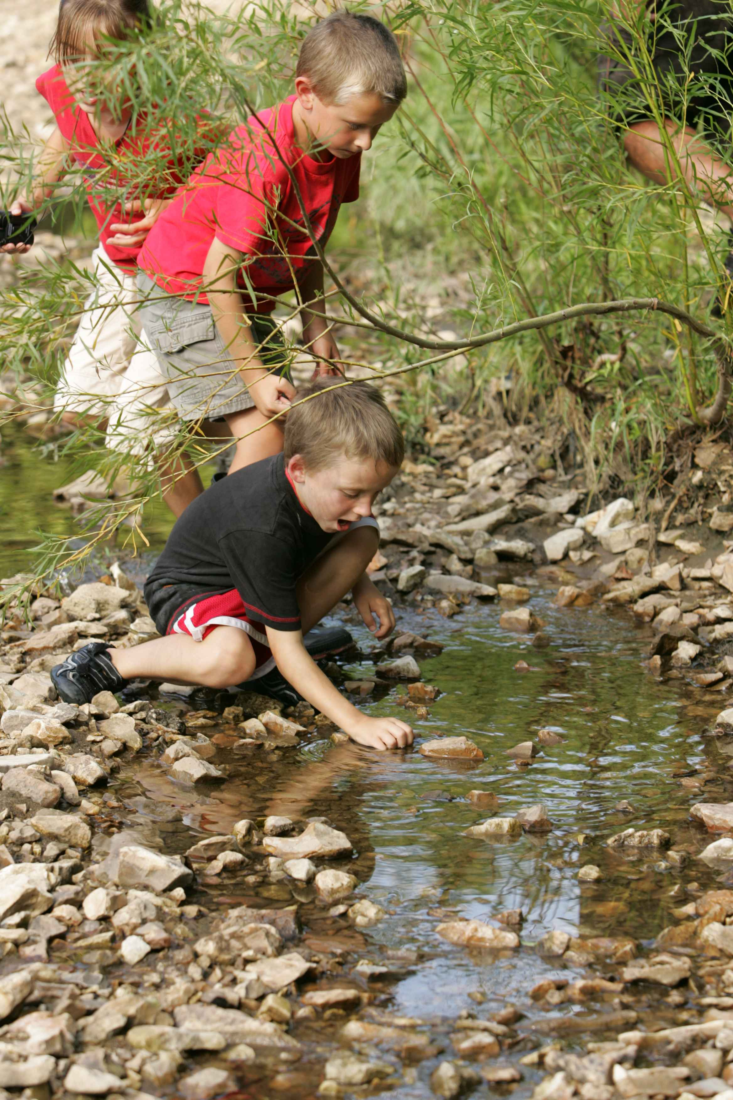 Image title: Children playing outdoors Image from Public domain images website